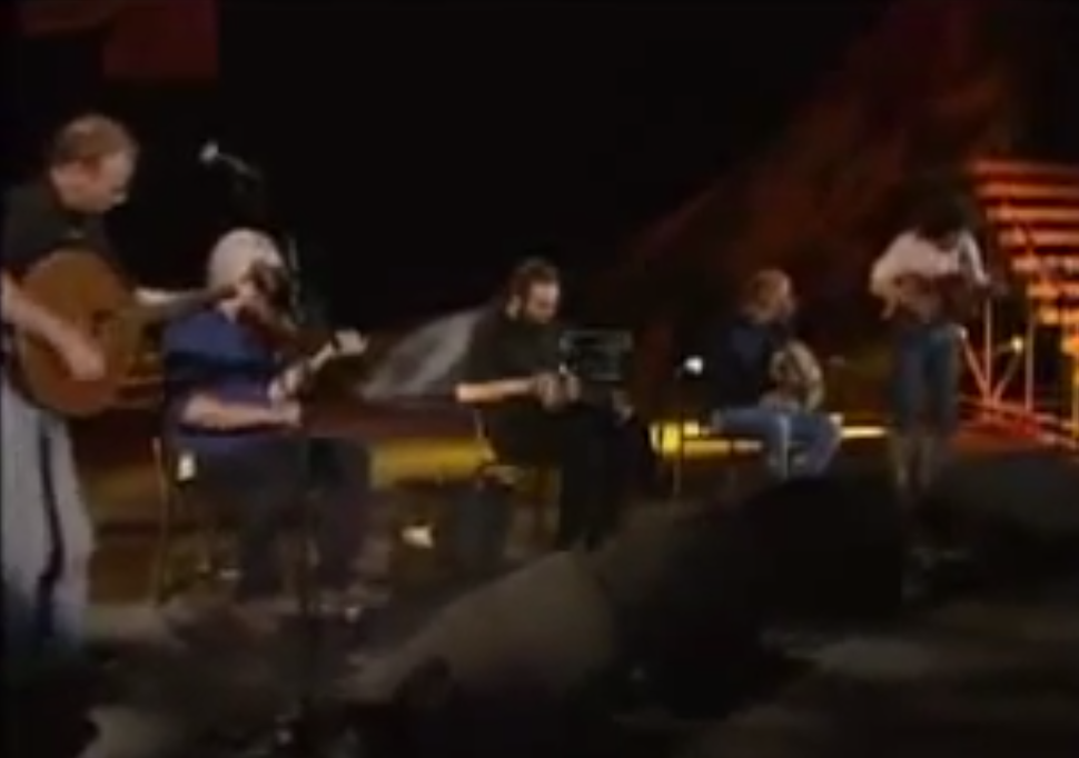 The band "Nomos" on stage